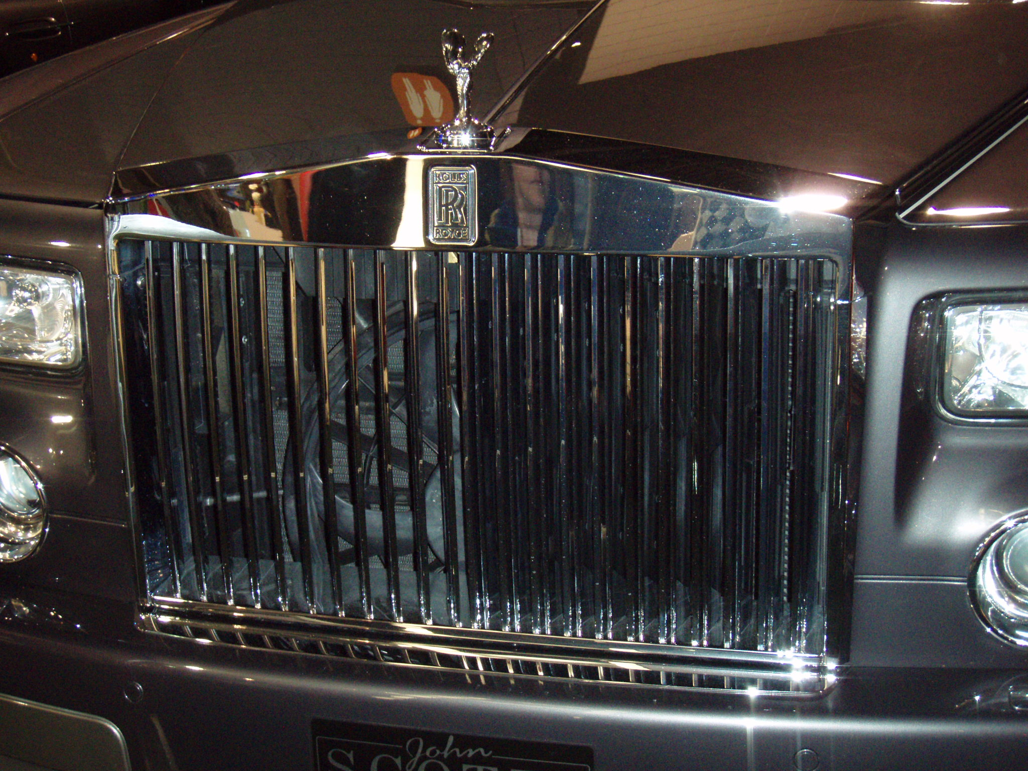 gril of Rolls-Royce